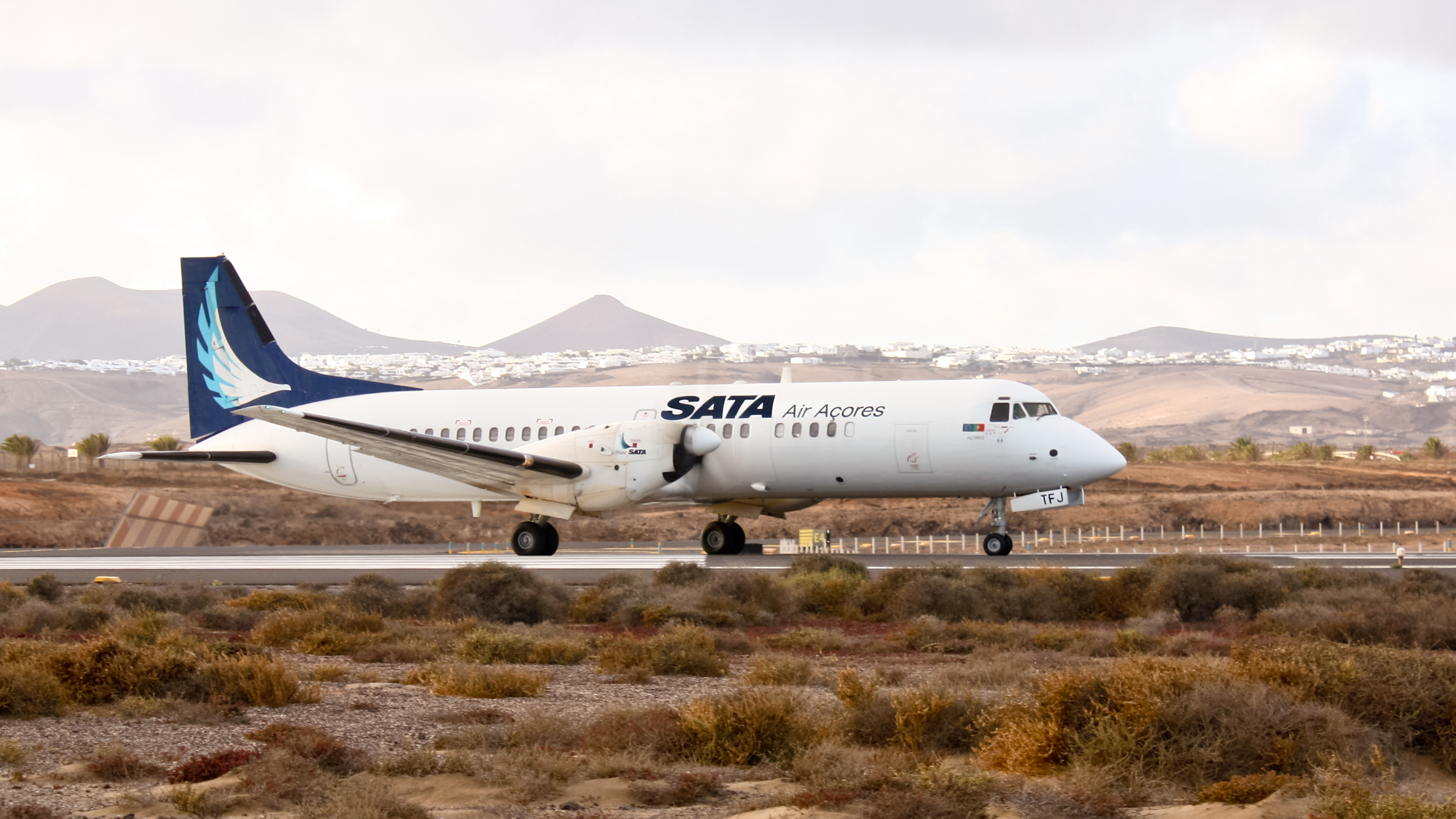 British Aerospace ATP